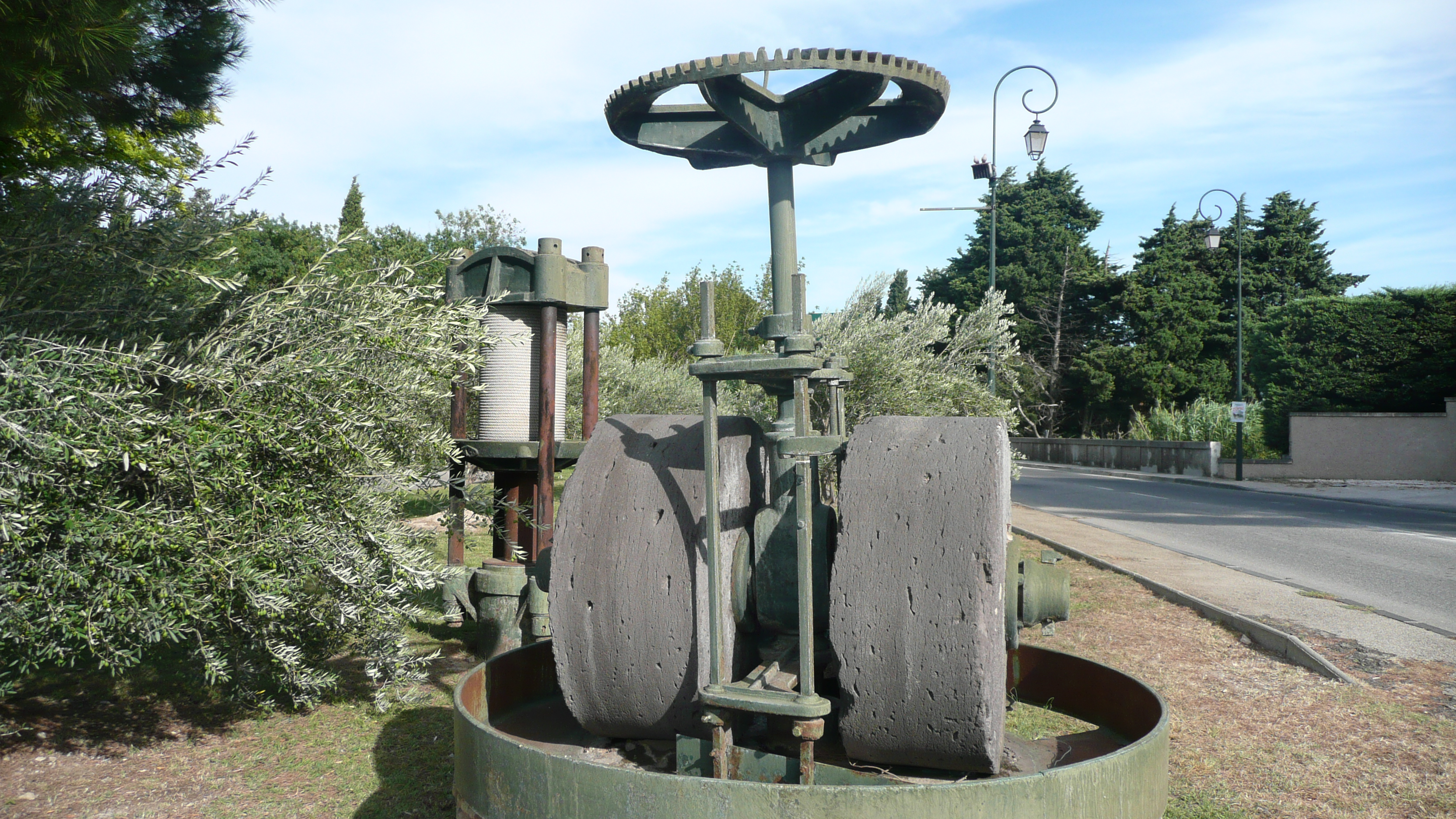 Old Olive Oil Mill in Mouriès (South France)